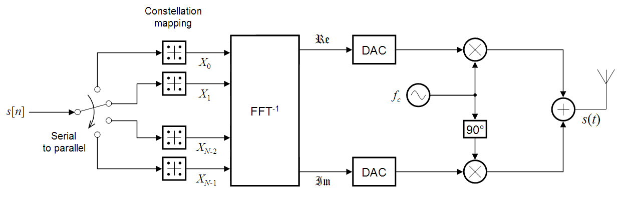 Block diagram of an ideal OFDM transmitter